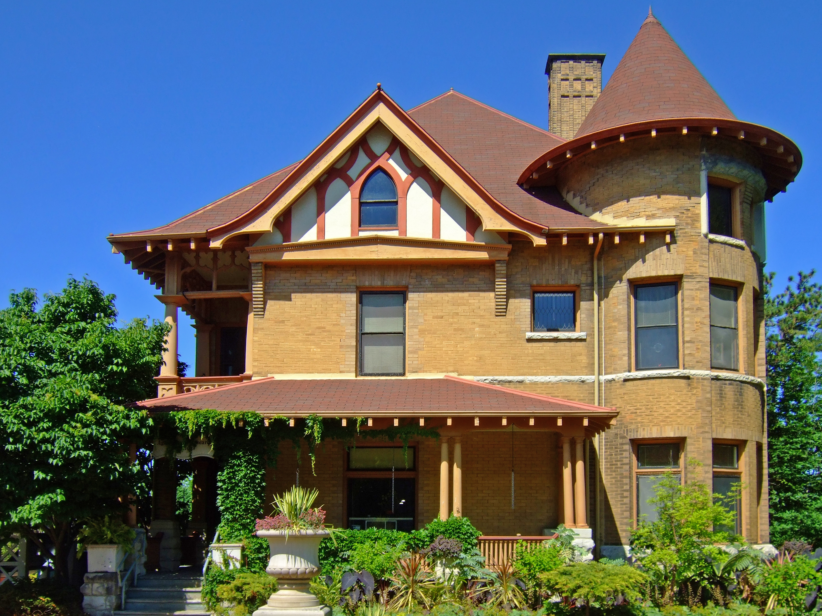 The former University of Wisconsin-Madison Agricultural Dean's House at 10 Babcock Place, now within Allen Centennial Gardens, was designed by Conover and Porter in Queen Anne style. It was built in 1896 and added to the National Register of Historic Places in 1984.